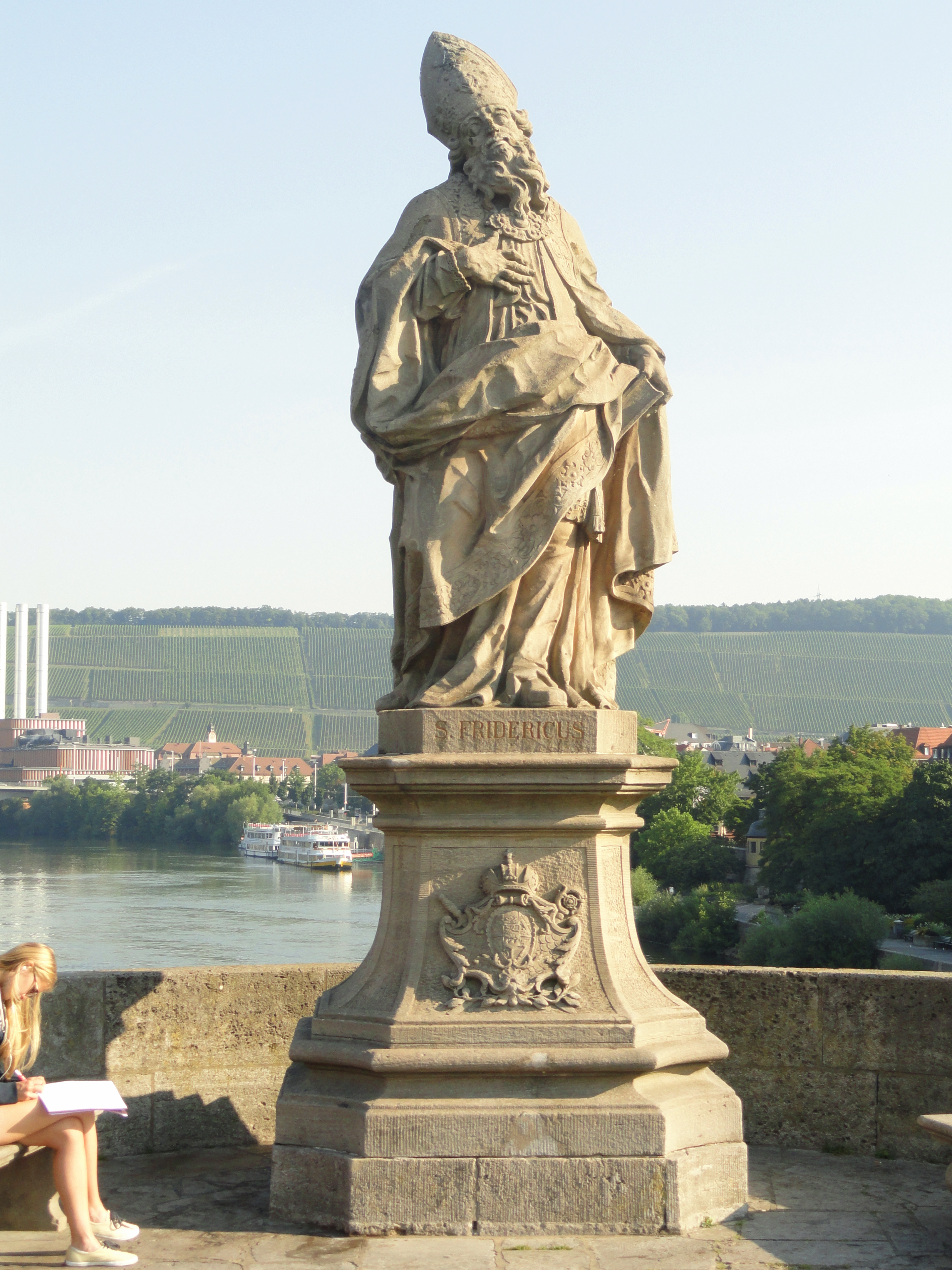 Statue on the Alte Mainbrücke in Würzburg, Germany.